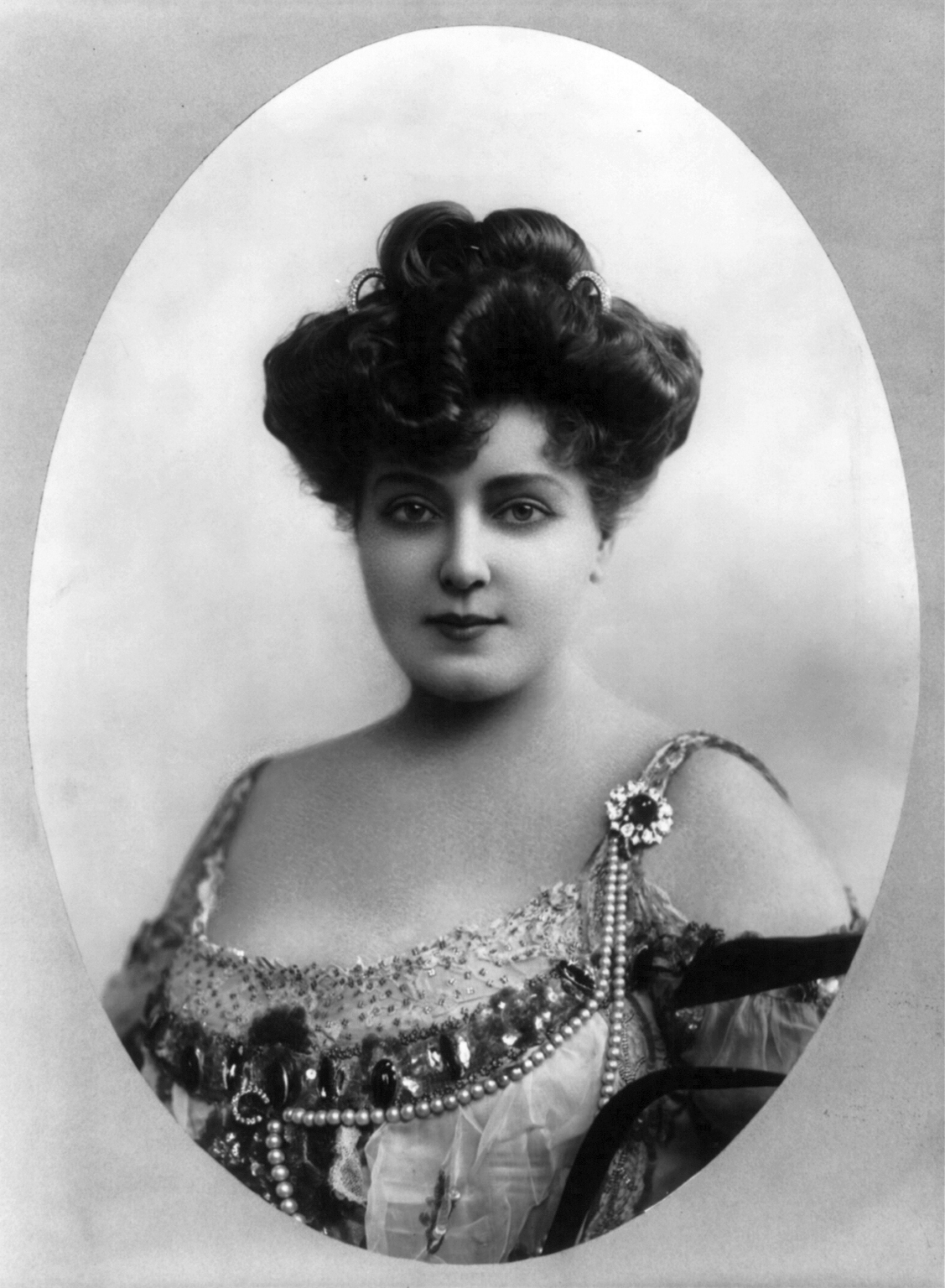 Lillian Russell, American singer and actress